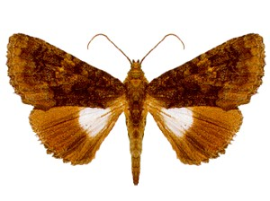 Aedia leucomelas Phylum ARTHROPODA Class HEXAPODA Order Lepidoptera Family Noctuidae